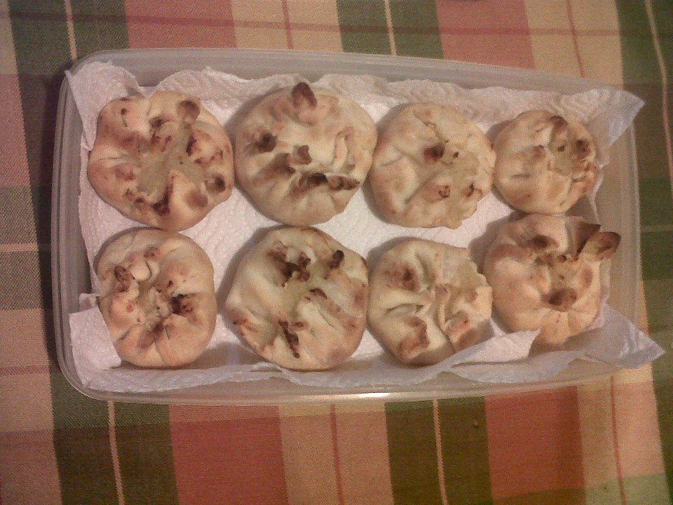 Argentinian made Knishes